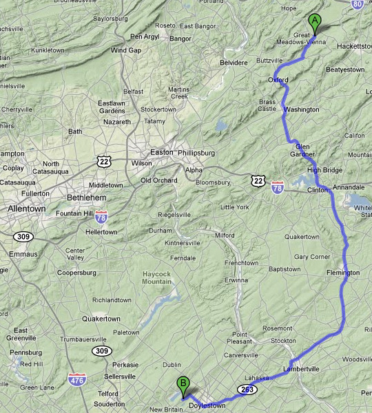 Approximate route of pilgrimage to National Shrine of Our Lady of Czestochowa, Doylestown, PA